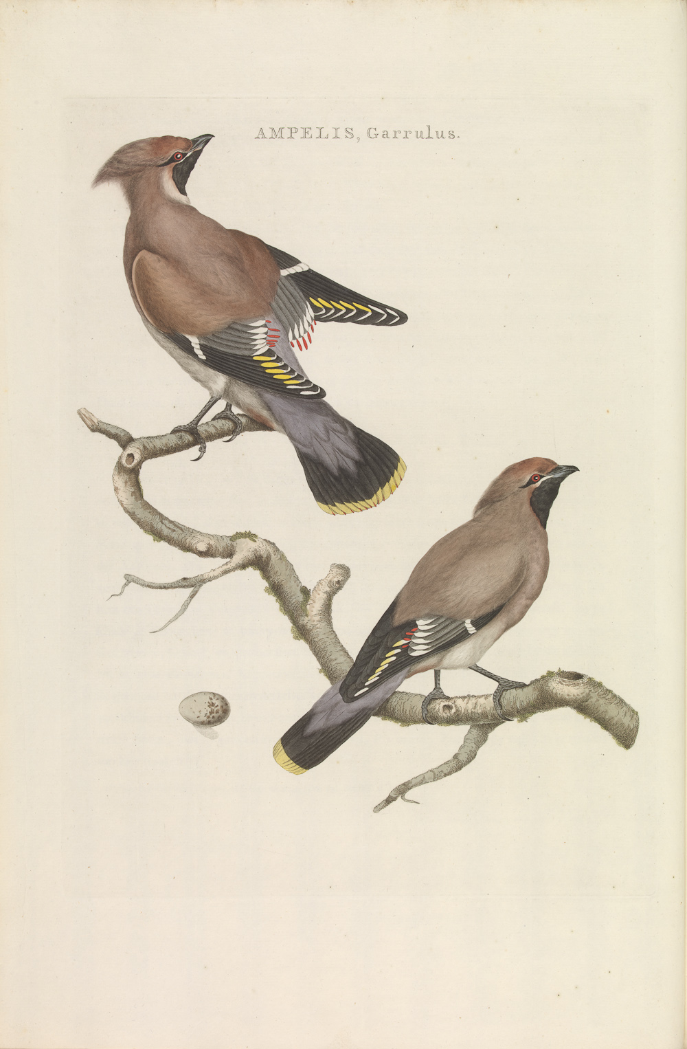 Plate 104 from the Nederlandsche vogelen by Nozeman and Sepp.